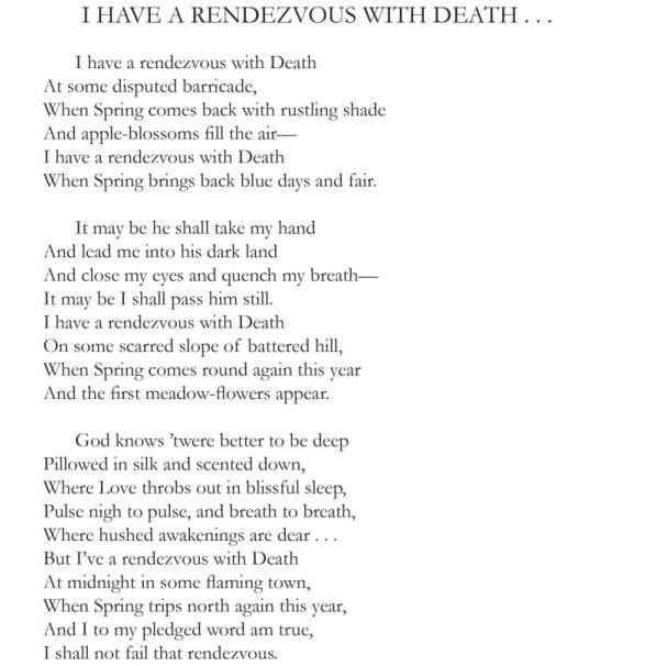 "Rendezvous with death" by Alan Seeger. Screenshot featuring page 164 of the book "Poems" hosted by